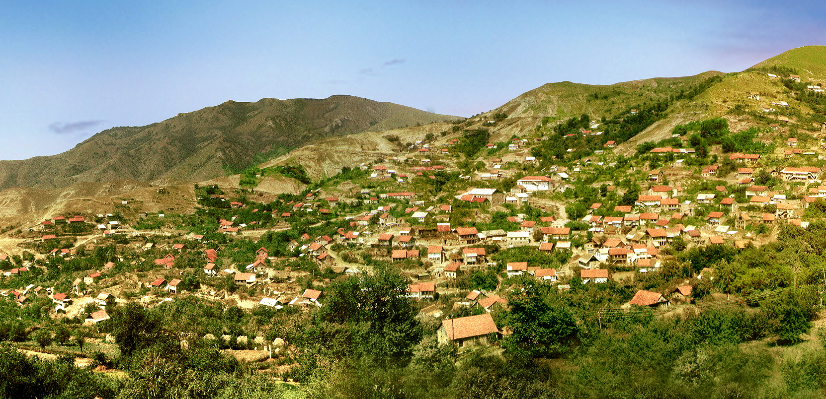 Zəylik village in Dashkasan Rayon of Azerbaijan.